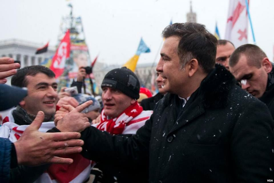 Georgian ex-President Mikheil Saakashvili at the Euromaidan rally in Kiev, Ukraine, in December 2013